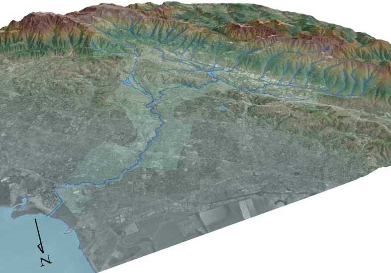 3-D image of San Francisquito Creek watershed with mainstem and tributary creeks in blue